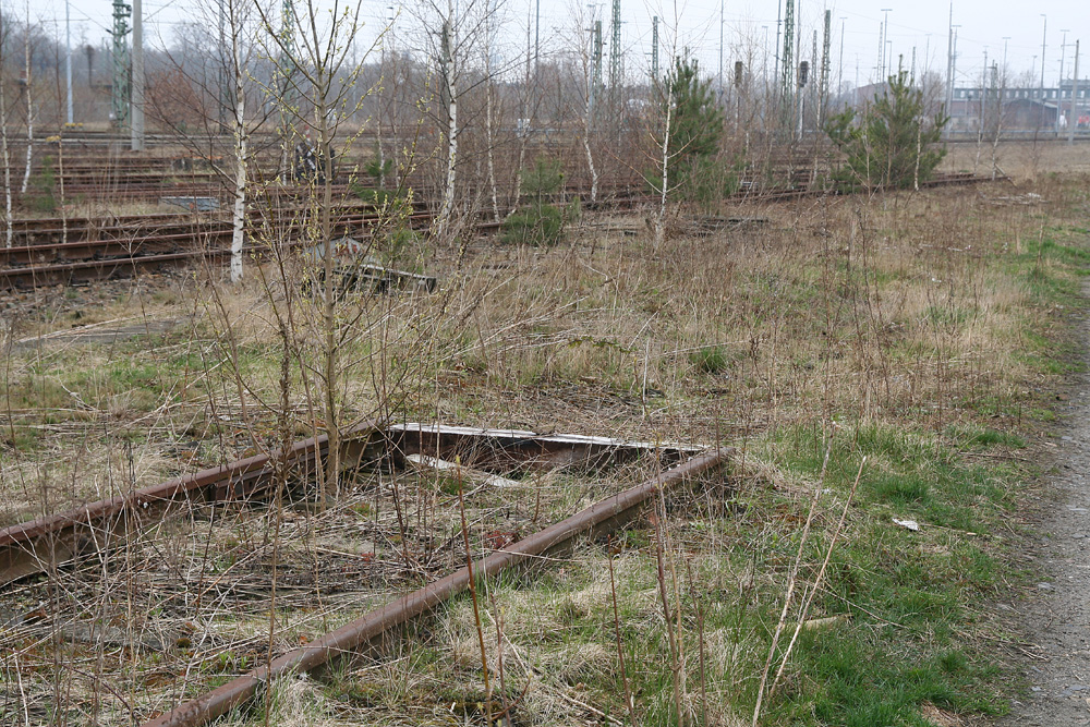 The former rail access to the memorial platform 17 in Berlin Grunewald.